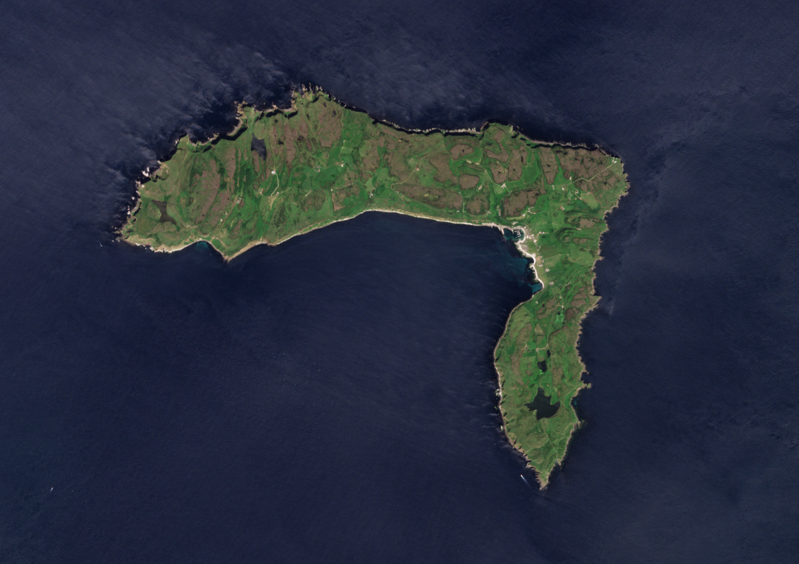 Date: 2018-06-30 Sensor: MSI on Sentinel-2B Resolution: 10m RGB Composites: True color, Band 4-3-2